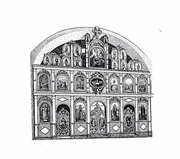 Serbian church in Deszk